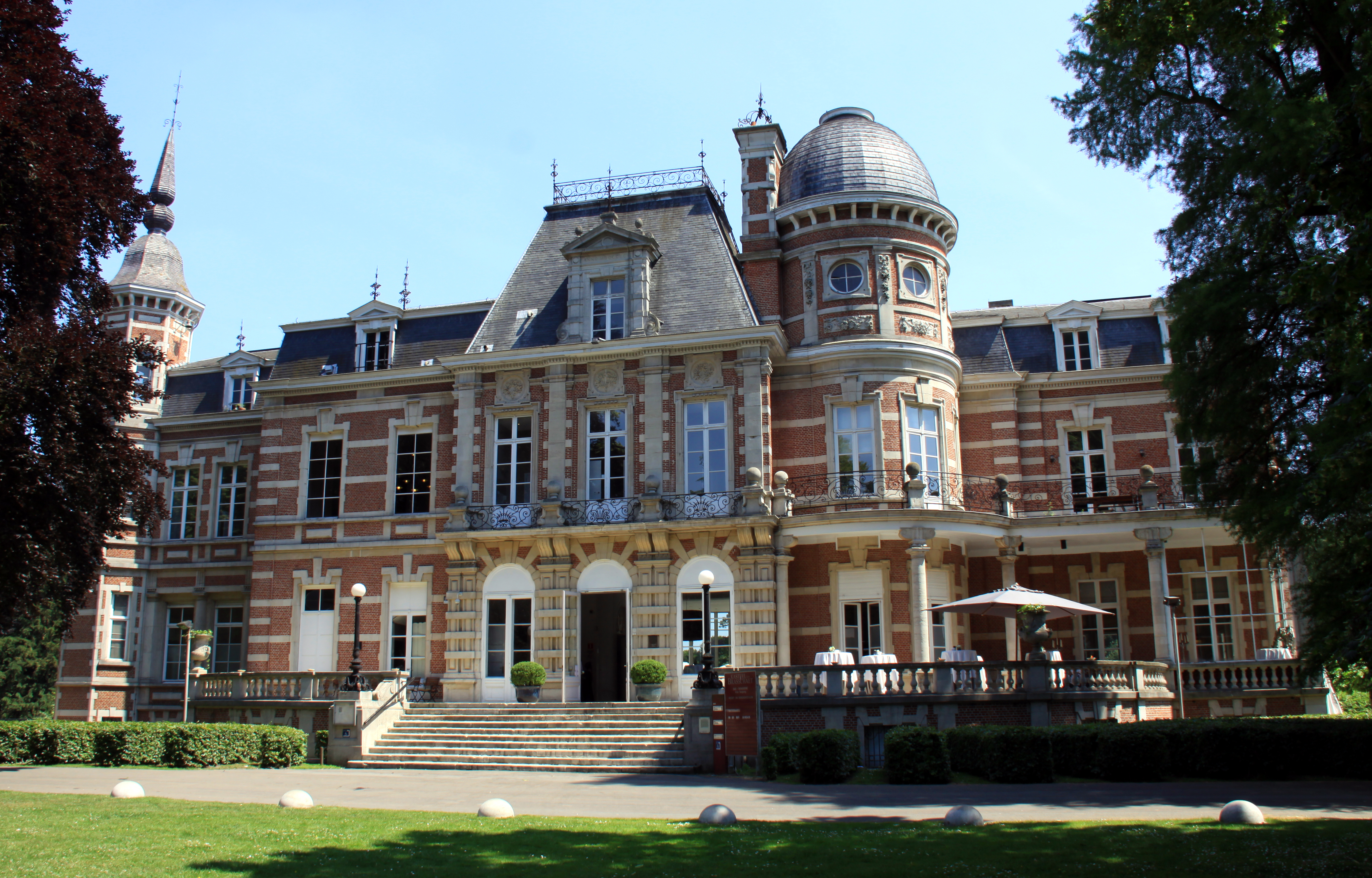 The Kasteel van Brasschaat